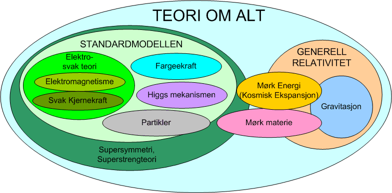 Overview of particle physics theories